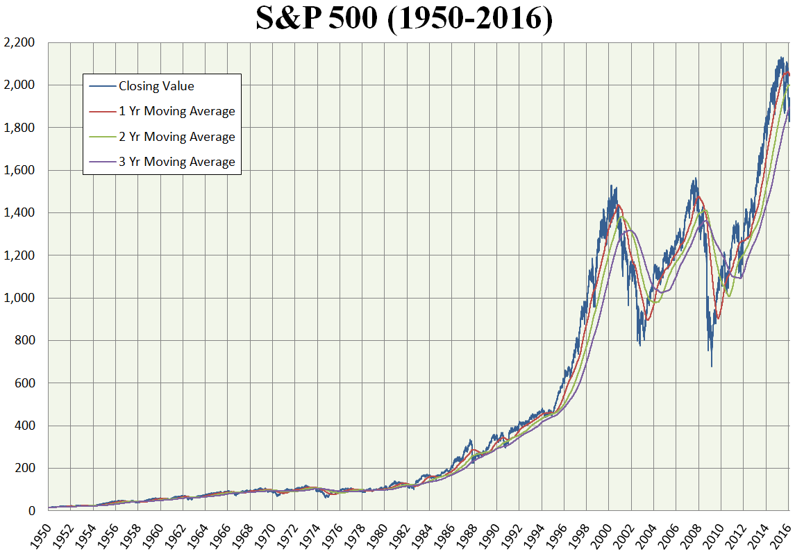 S&P 500 Closing Values (1950-16) along with 1, 2 and 3 Year Moving Averages